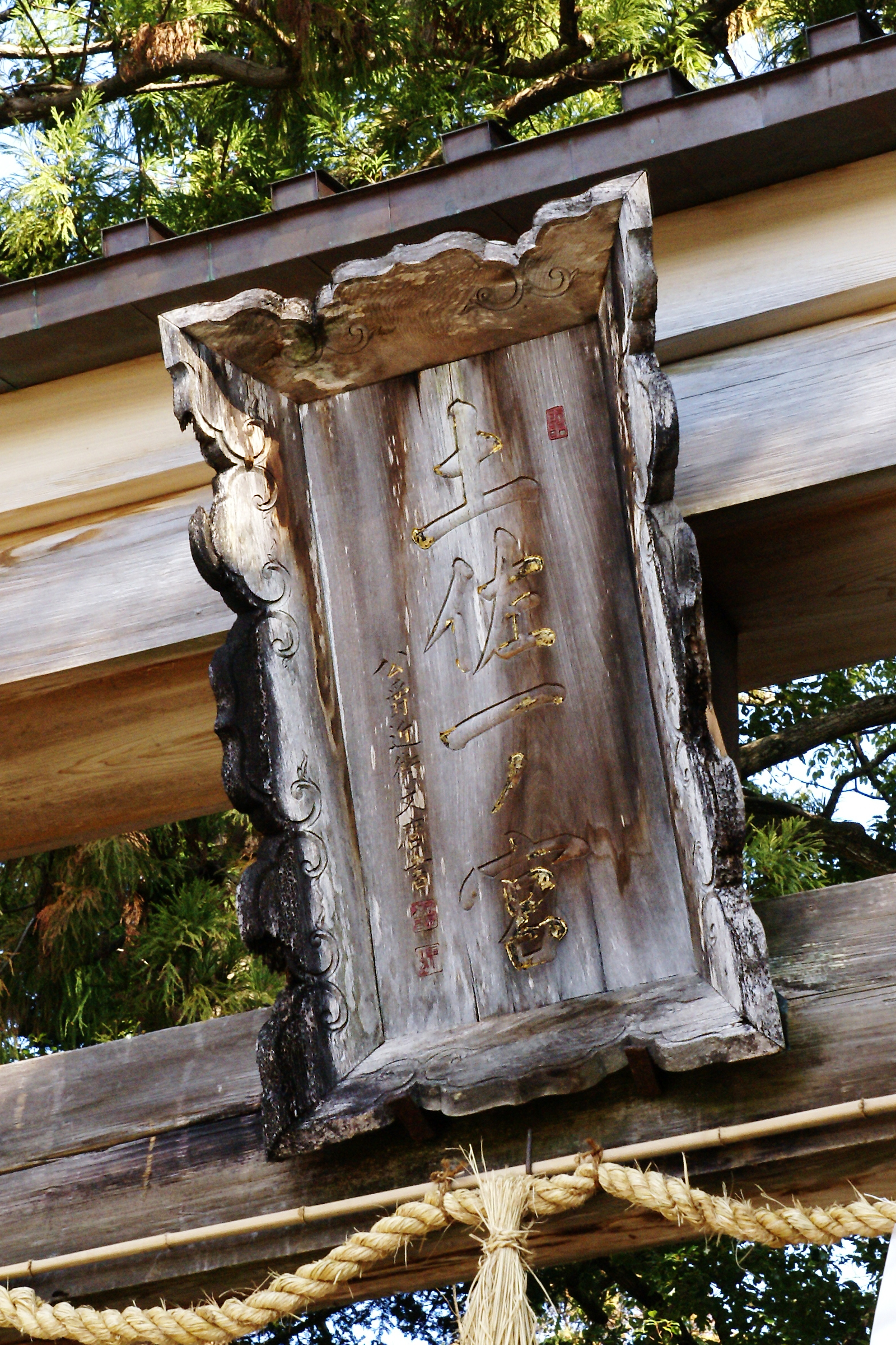 Tosa-jinja in Kochi, Kochi prefecture, Japan